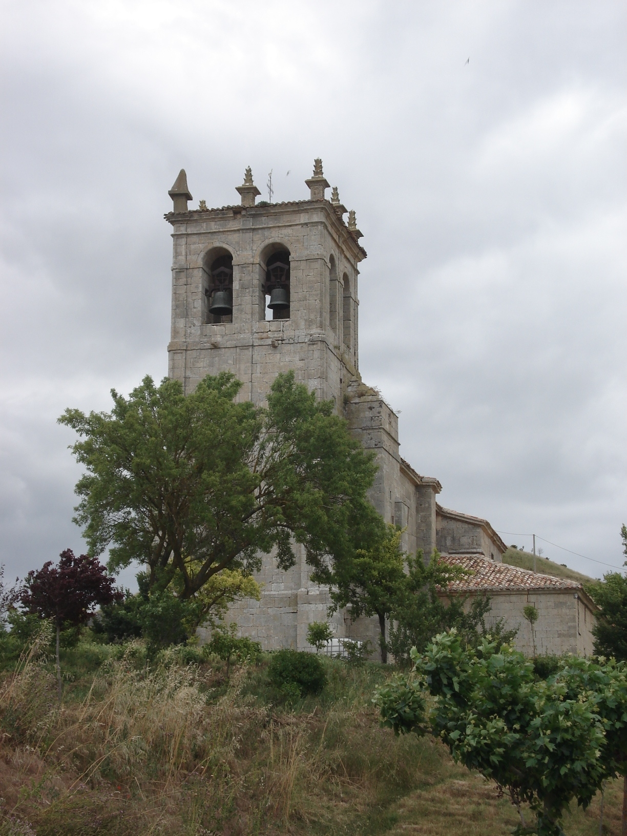 Las Hormazas village in Burgos. Church of Solano.